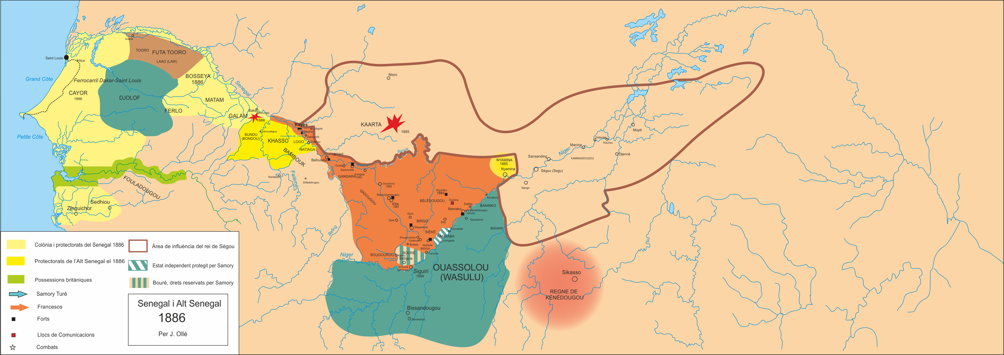 Senegal-Mali 1886